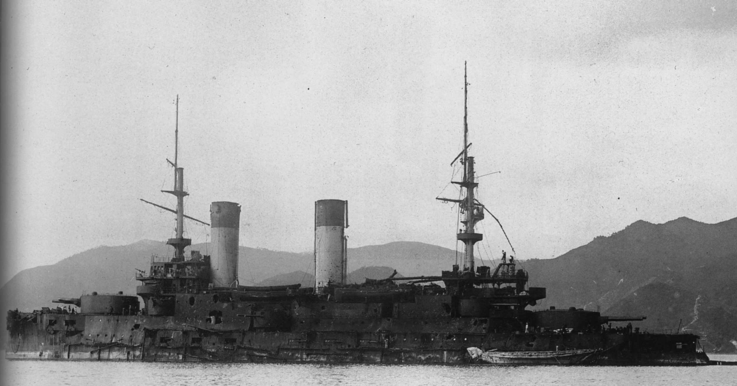 The captured Russian battleship Oryol after the Battle of Tsushima, mid-1905